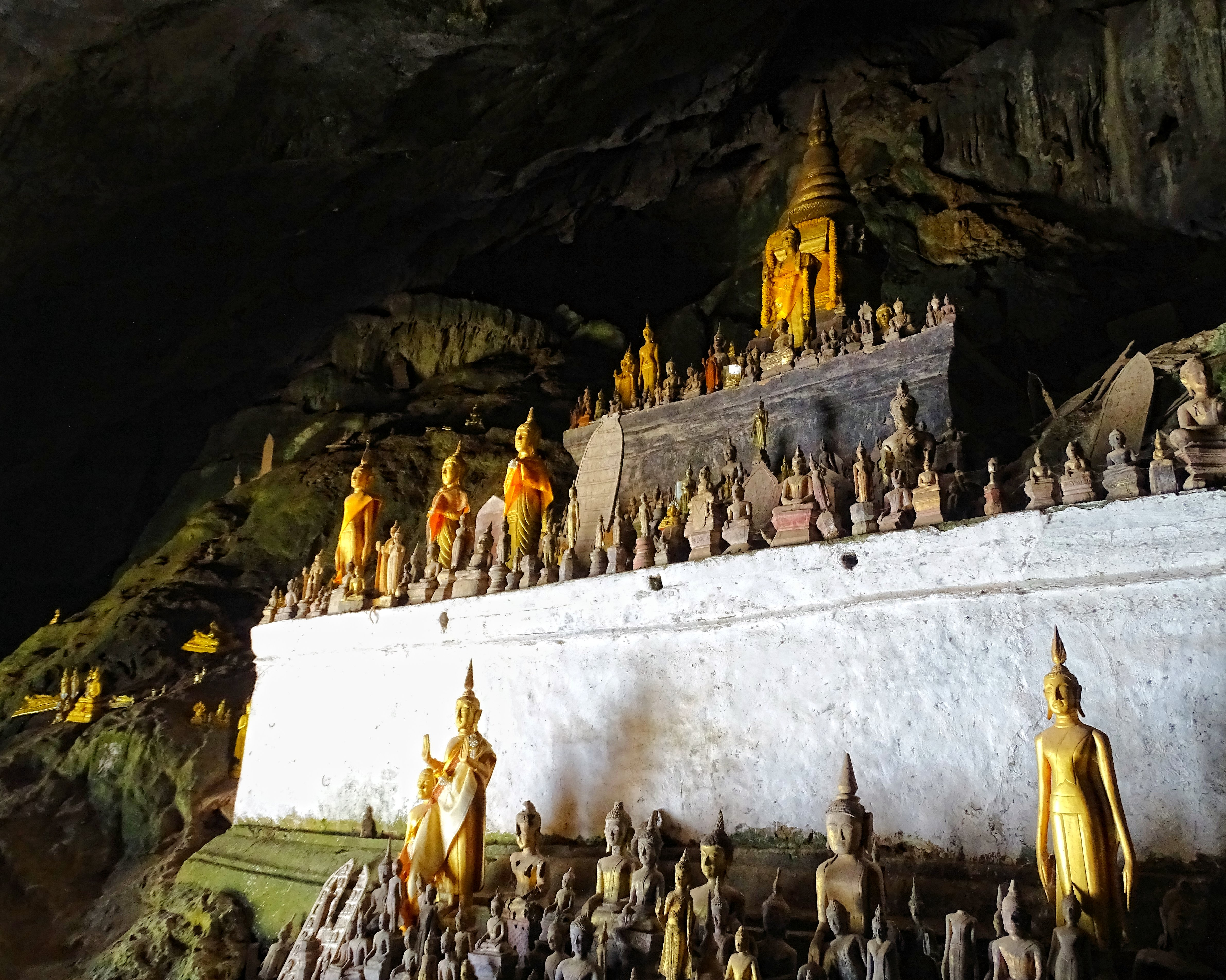 Inside one of the caves in Pak Ou, north-east of Luang Prabang, Laos.